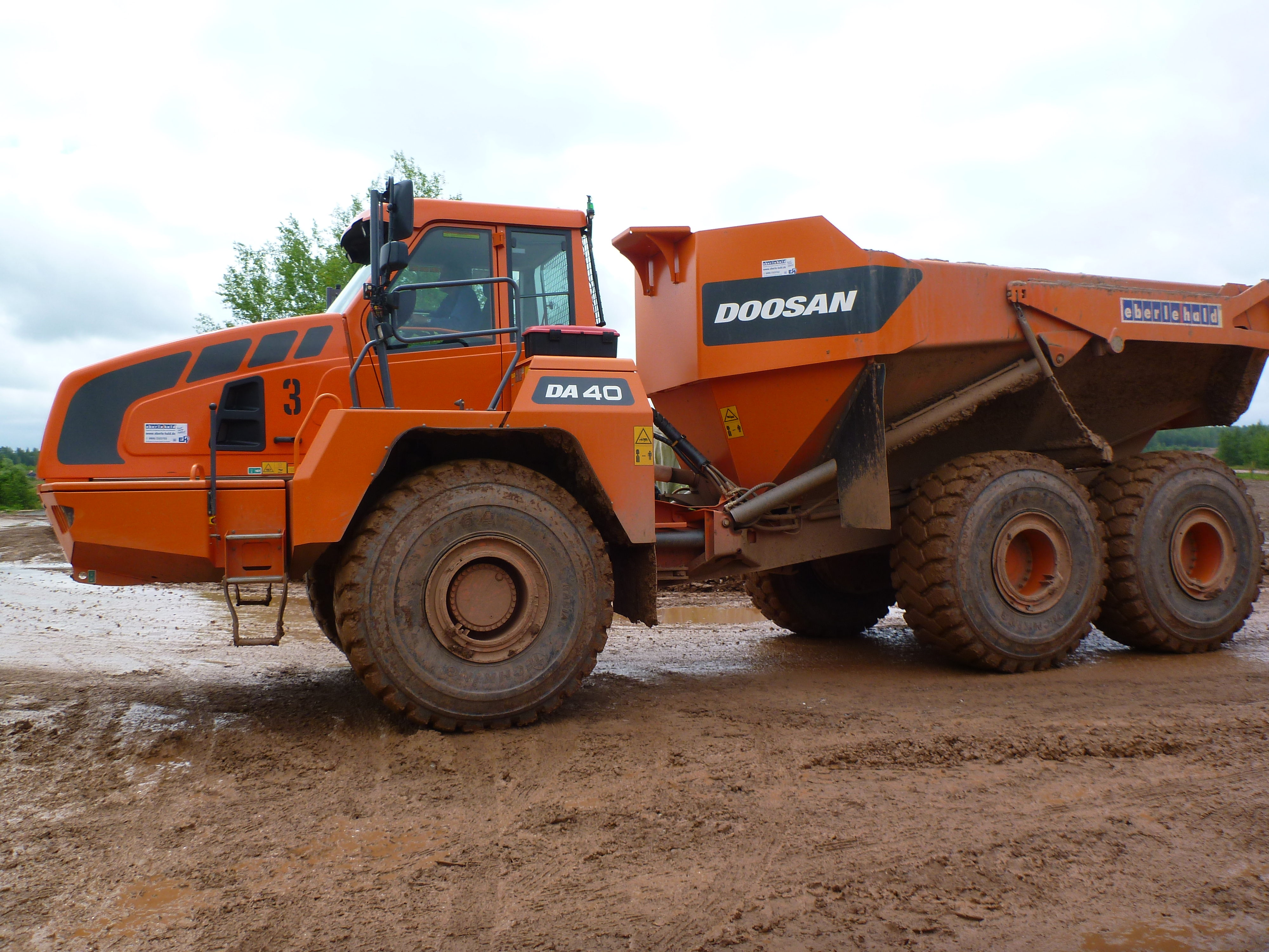 Doosan Truck